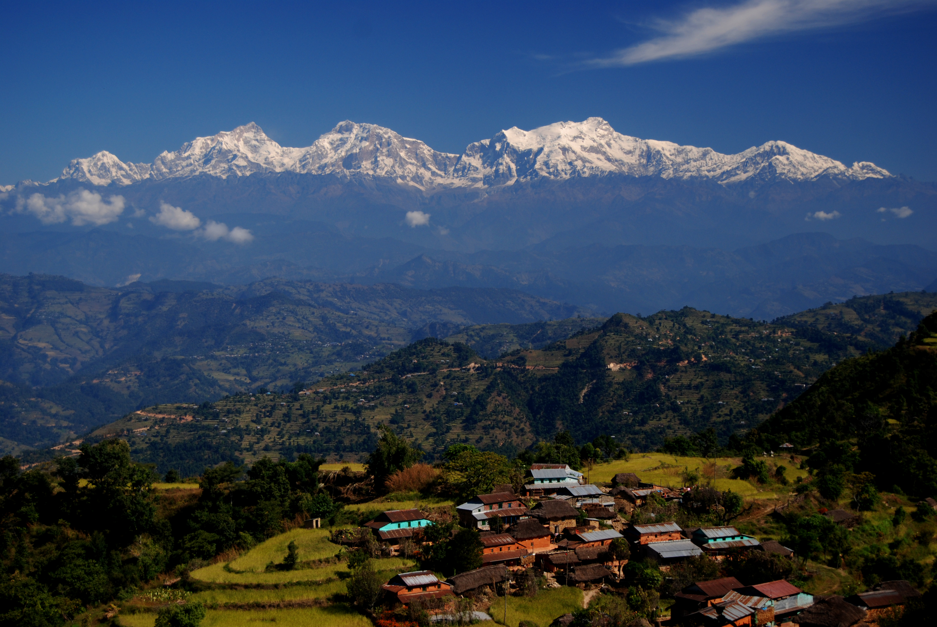 Beautiful scenario of human settlement and the himalayas as seen from the Bhujikot Tower in Shuklagandaki Municipality